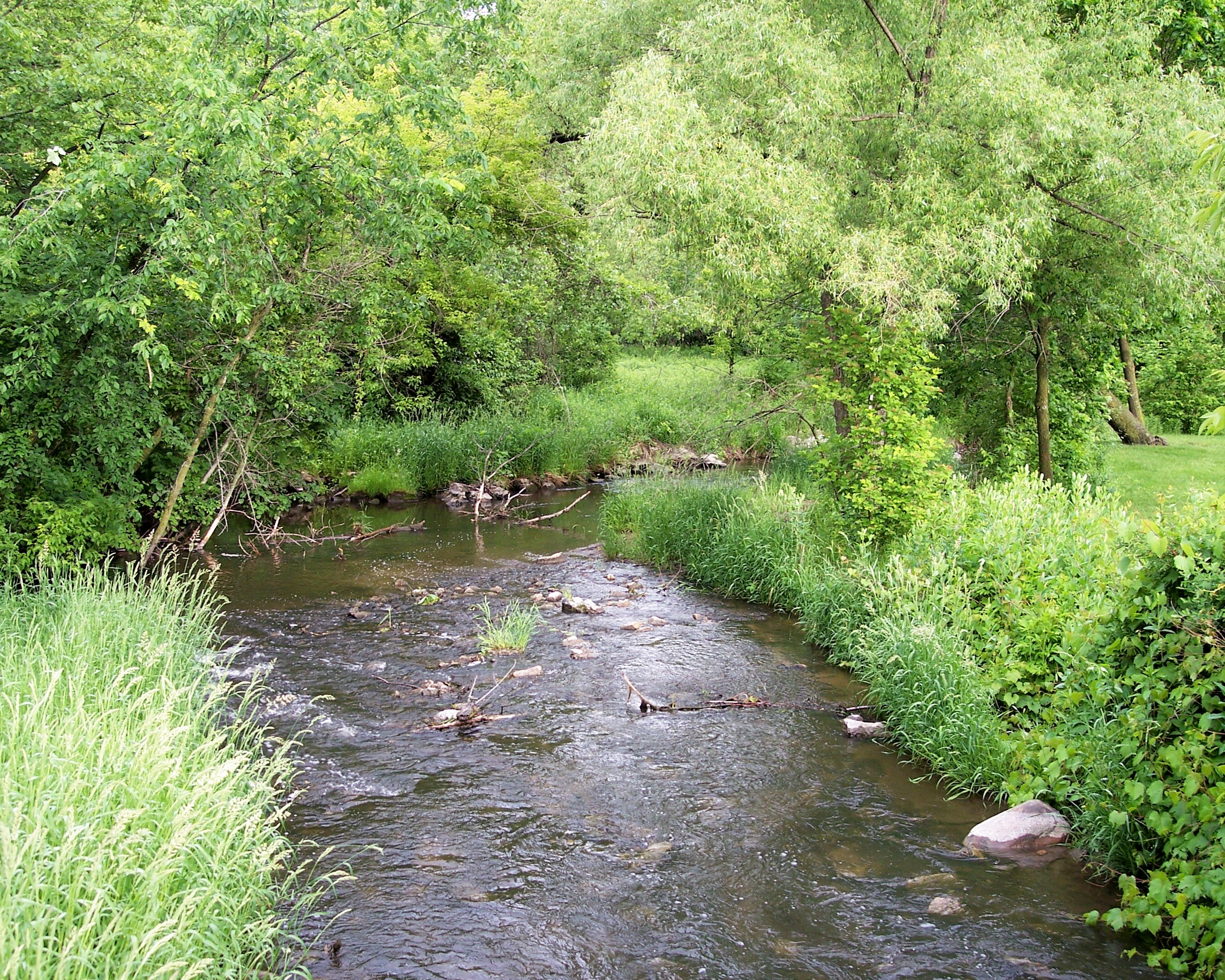 The Credit River in Hidden Valley Park in Savage, Minnesota